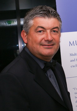 English snooker player John Parrott at a KidsOut charity Question of Sport night at the Hilton Hotel, Beetham Tower